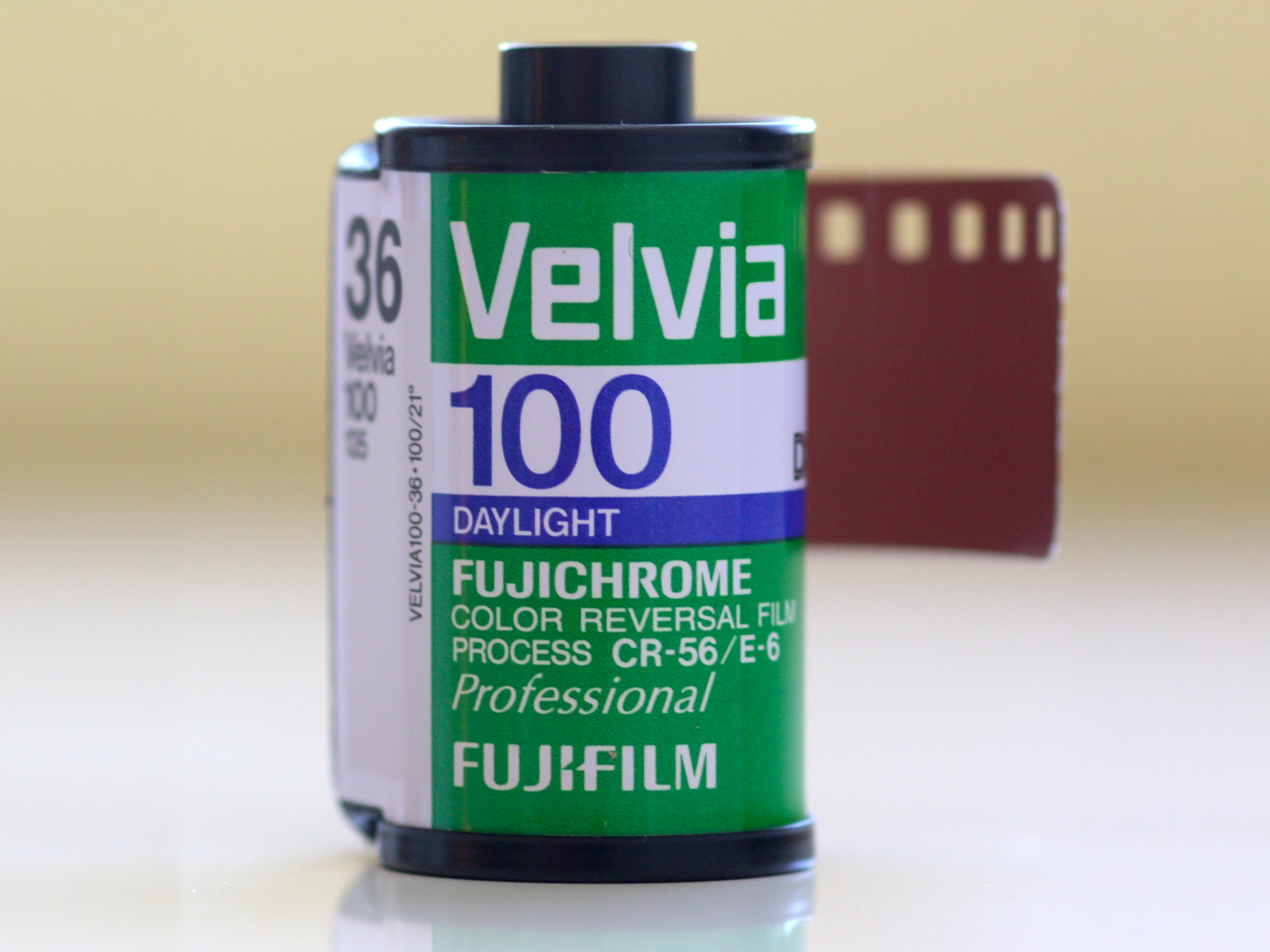 Fuji Velvia 100, 135 film cartridge